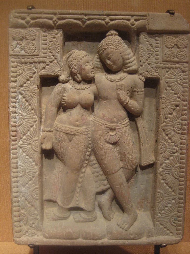 Mithuna India, Gupta period, 5th century A.D. Terra cotta Honolulu Museum of Art Purchase, 2003 (accession 12,476.1) Wikipedia Loves Art at the Honolulu Academy of Arts This photo of item # 12 at the Honolulu Academy of Arts was contributed under the team name "wiki_wiki_whaaat" as part of the Wikipedia Loves Art project in February 2009. Honolulu Academy of Arts The original photograph on Flickr was taken by absolutlalaland—please add a comment to the original Flickr page whenever a use has been made on Wikipedia or another project. Project galleries on Flickr: this institution, this team